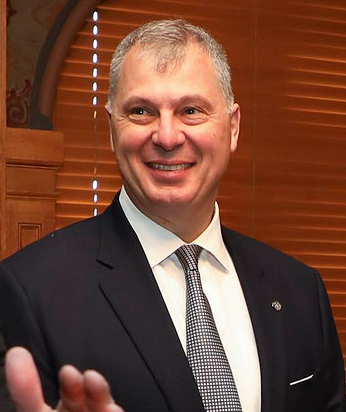 The CFL commissioner, Randy Ambrosie.